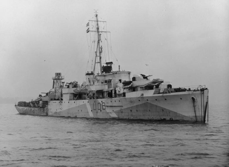 Photograph of British Black Swan class sloop HMS Woodpecker (U08).